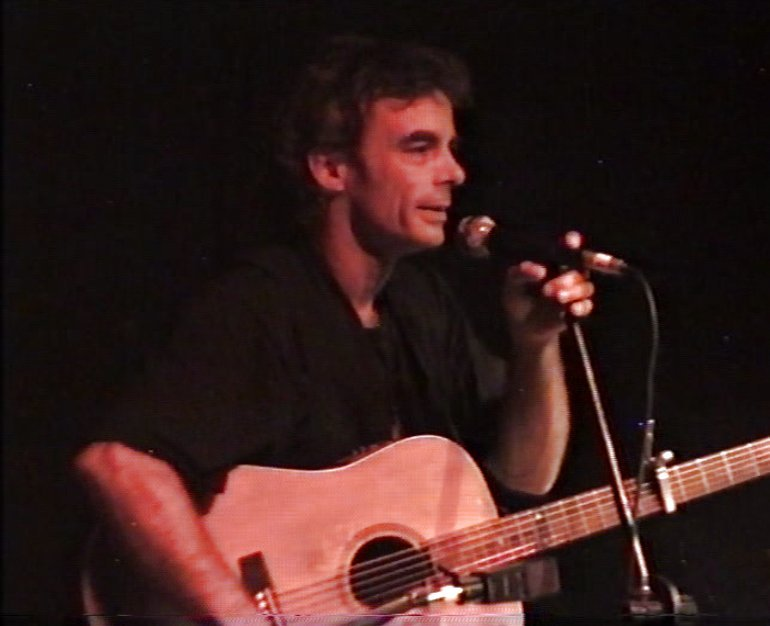 Dave Steel (Australian musician) on stage at Cygnet Folk Festival, January 1999 (Tony Rees photograph)